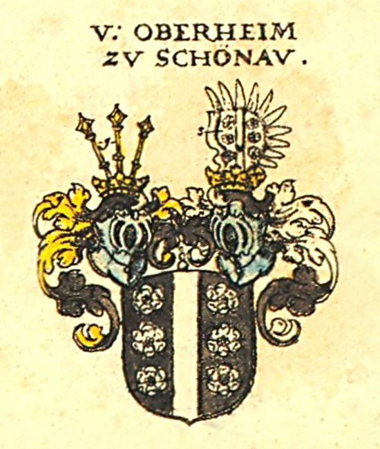 Coat of Arms of Oberheim zu Schoenau